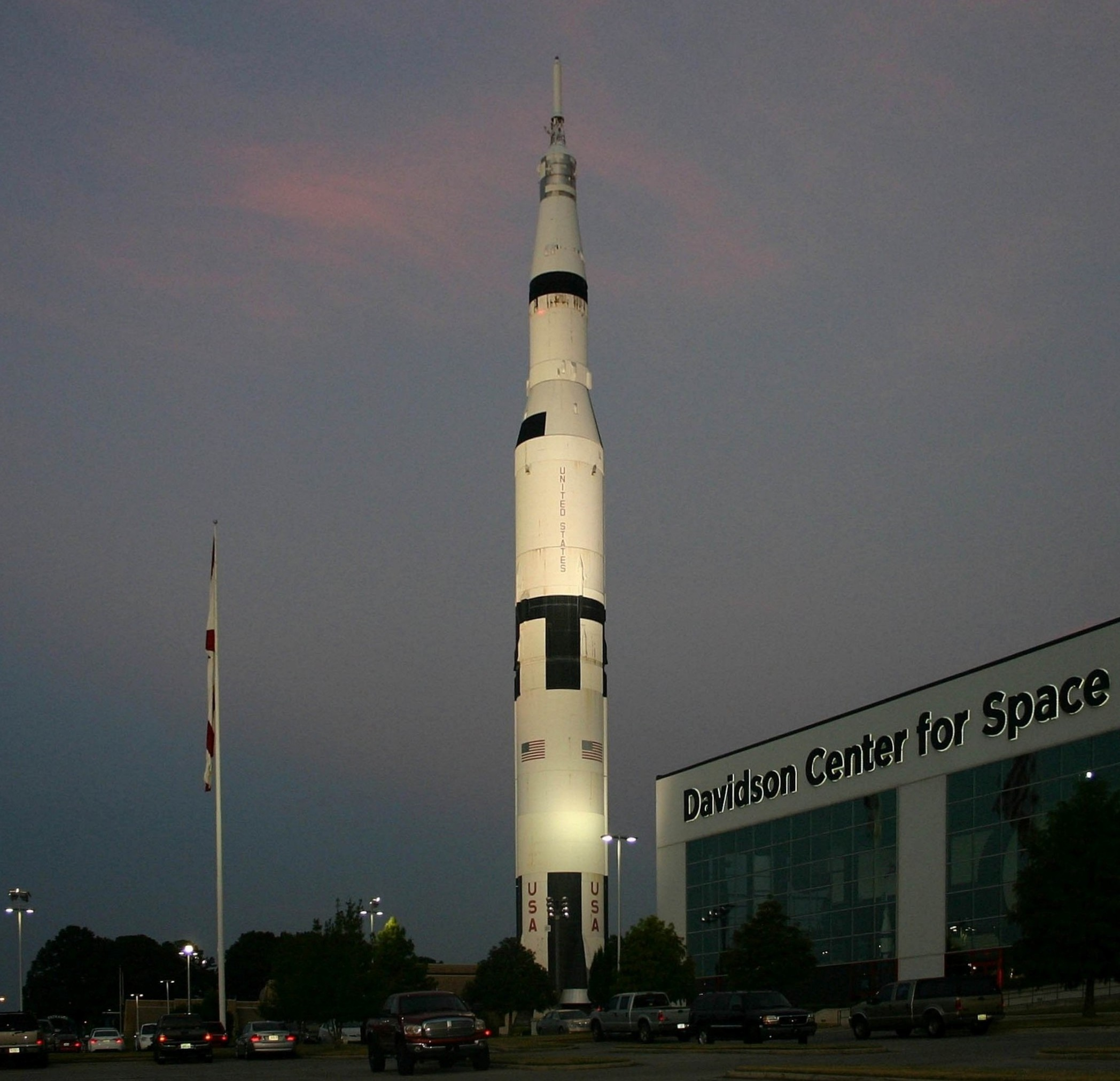 Saturn V Mock Up 1ː1, Davidson Center for Space Exploration (Huntsville, Alabama, USA)